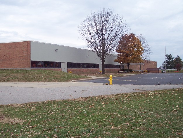 Taken by Kurt Weber (User:Kmweber) on November 5, 2006